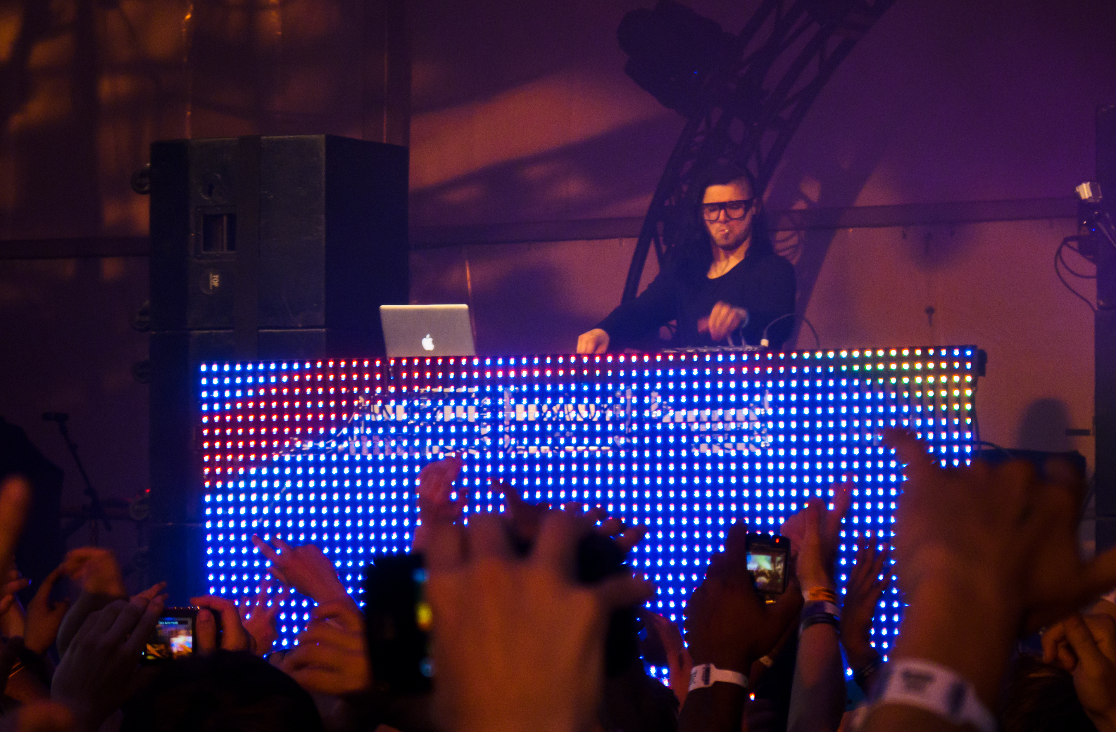 Skrillex mixing at Sasquatch.